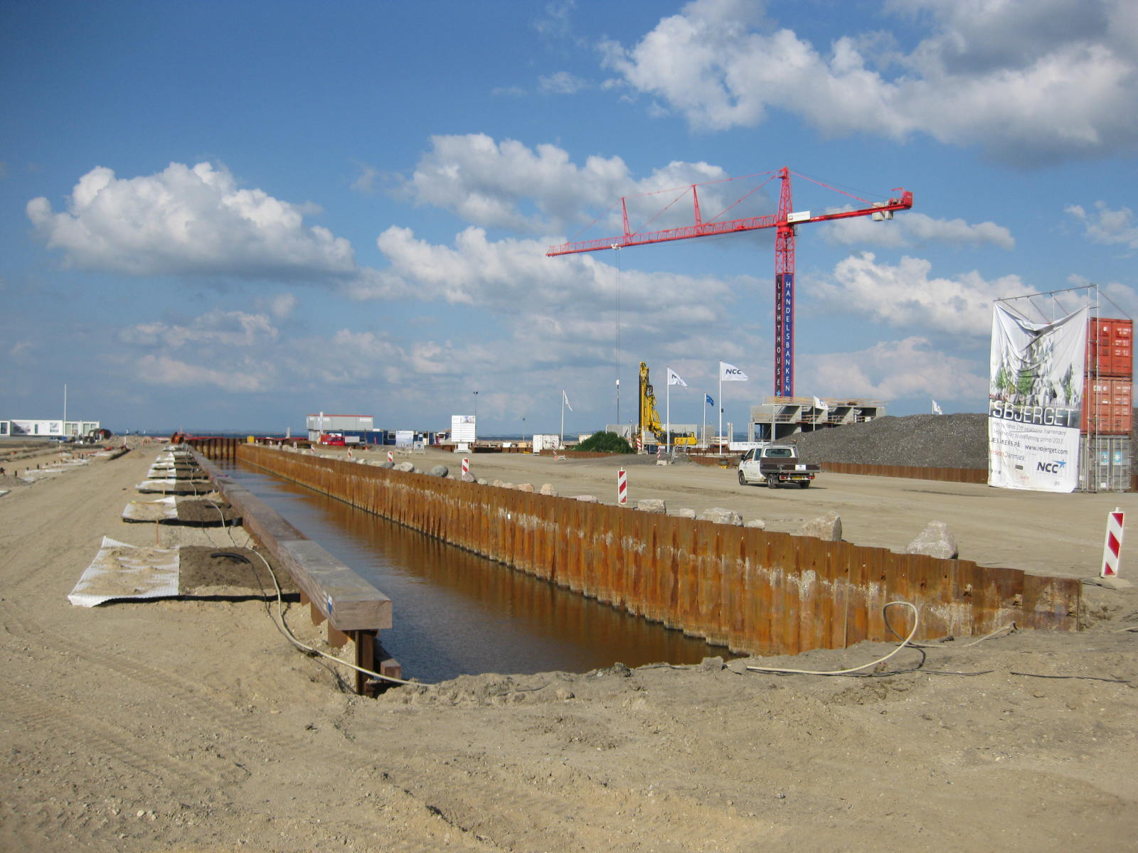 Nordhavnen in Aarhus during the construction phase